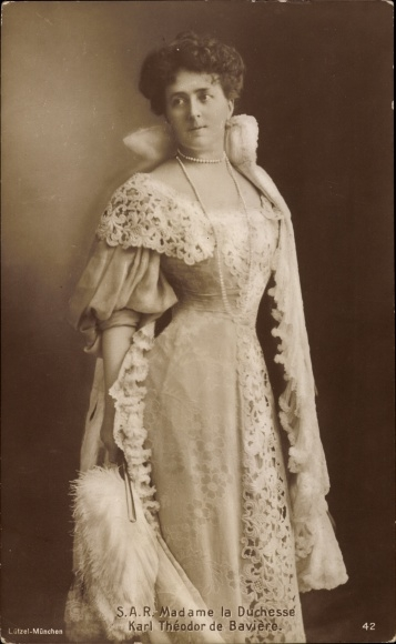 Duchess Maria Josepha in Bavaria (nee Infanta of Portugal).